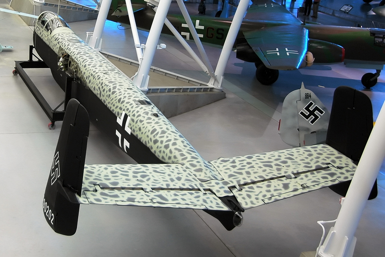 He 219 A-2